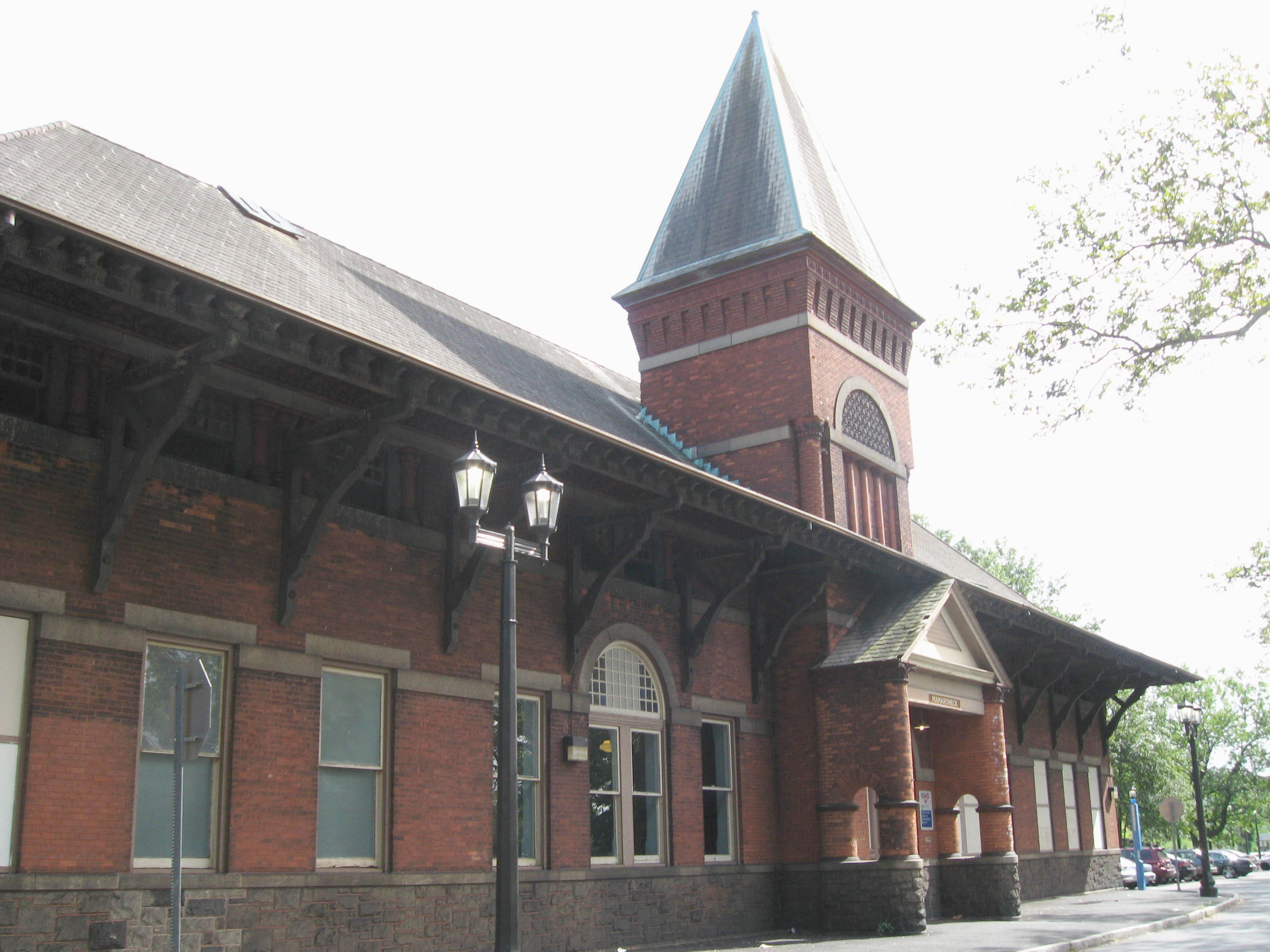 Looking south at Mamaroneck (Metro-North station) on a sunny early afternoon